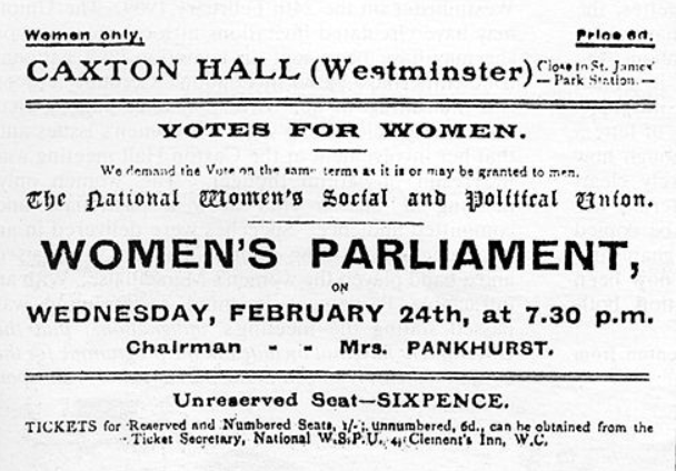 Womens Parliament 24 Feb 1909 - the invite for Helen Watts